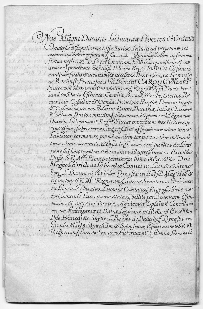 Text of the Kedainiai Union between Lithuania and Sweden.